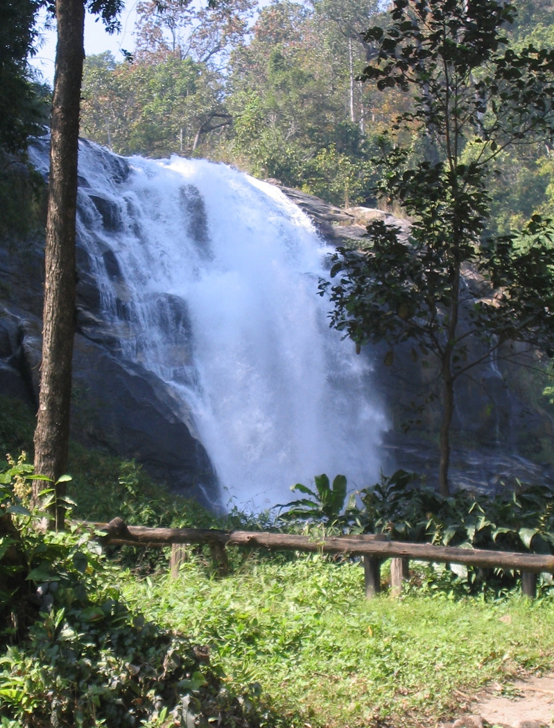 Vachiratharn Waterfall at Doi Inthanon Mountain, Northern Thailand